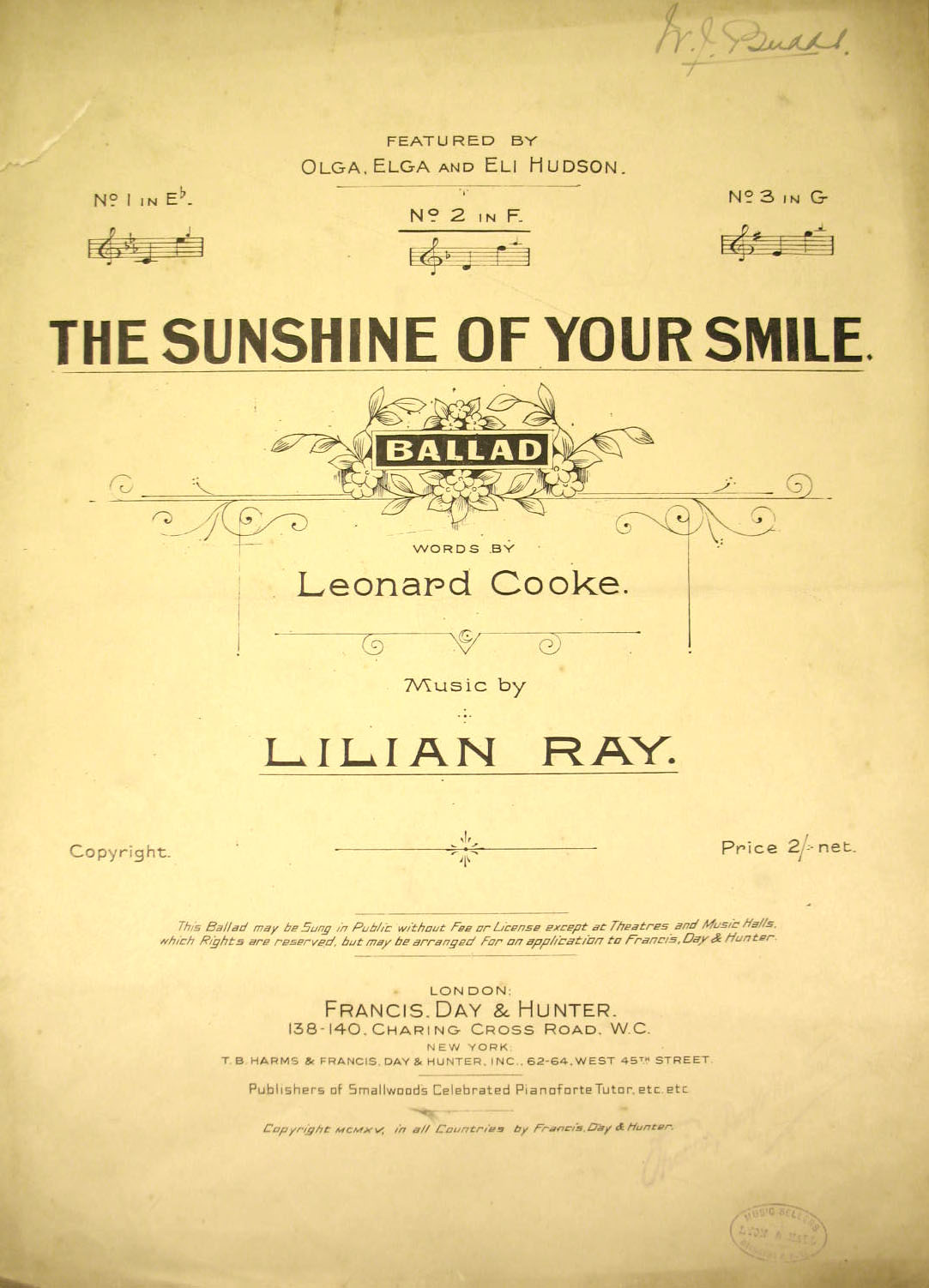 The front page of the sheet music for the song "The Sunshine of Your Smile" published 1913